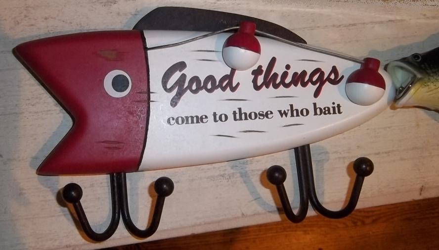 This plaque applies an old proverb to fishing